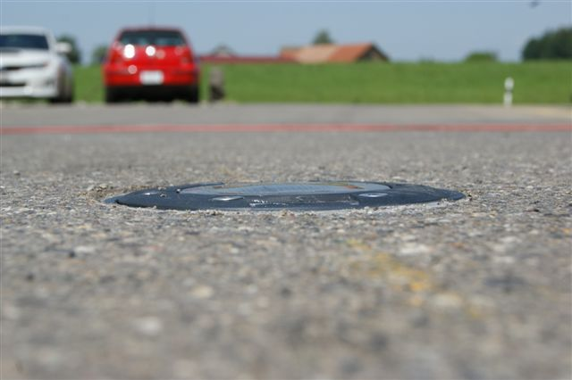 solar road stud, anodized aluminum housing for inroad installation, 2 LED's endurance 300h, visibility up to 500m, for street safety